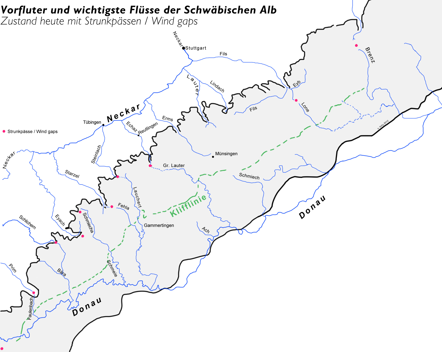 Geomorphological drainage system: Upper Danube, Neckar, mayor rivers and wind gaps of the Swabian Alb, contemporary morphology.Due to karstfication of the Alb there are now many dry valleys. A remaining few continue to drain some water on the surface in oversized valleys. The surface and subsurface drainage system of the Alb (when not captured by strong headward erosion of rhenish tributaries, "wind gaps") became firmly oriented towards the deeply eroded upper Danube.